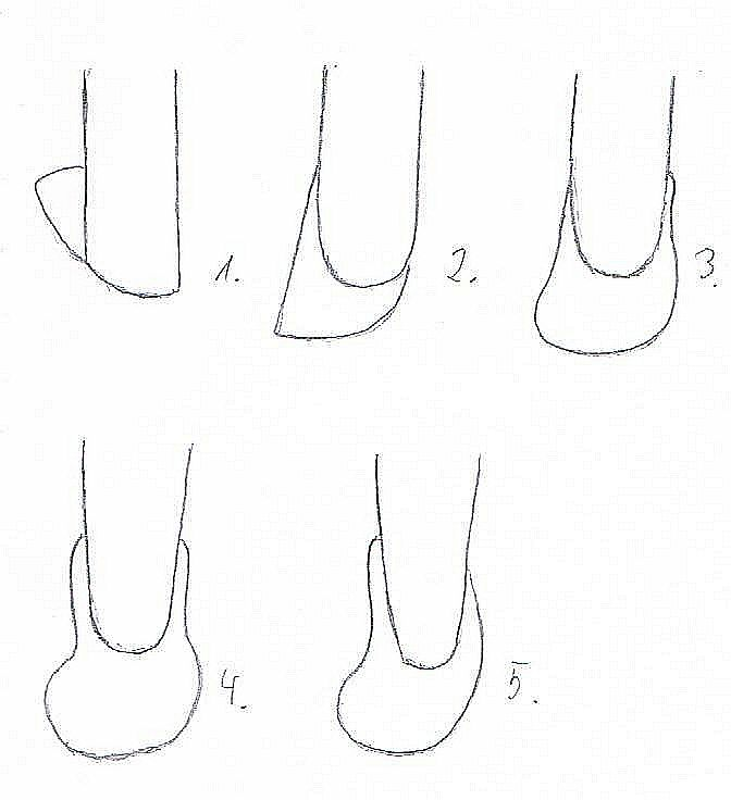 Types of "Schleppblech"